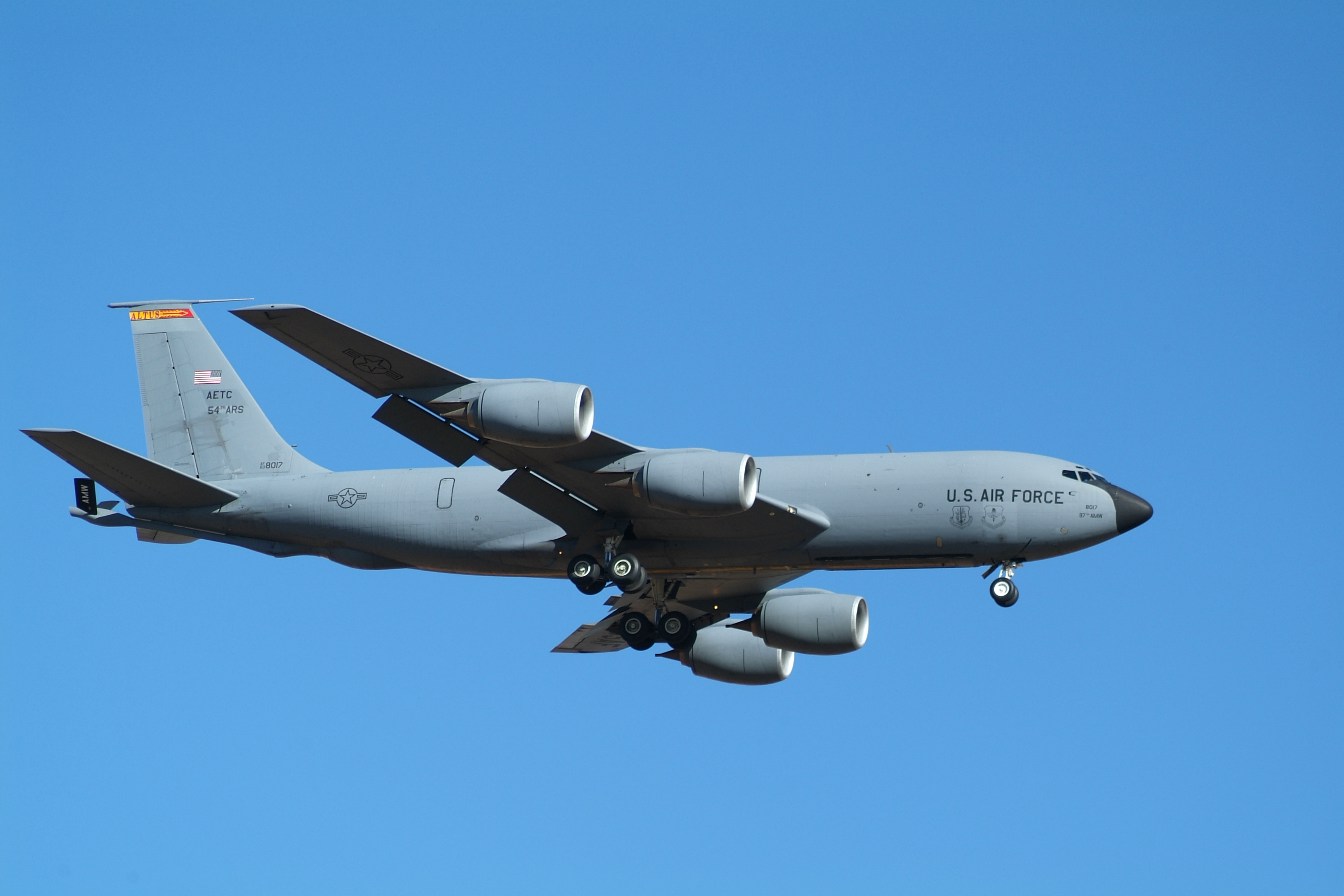 The Squadron Commander's bird